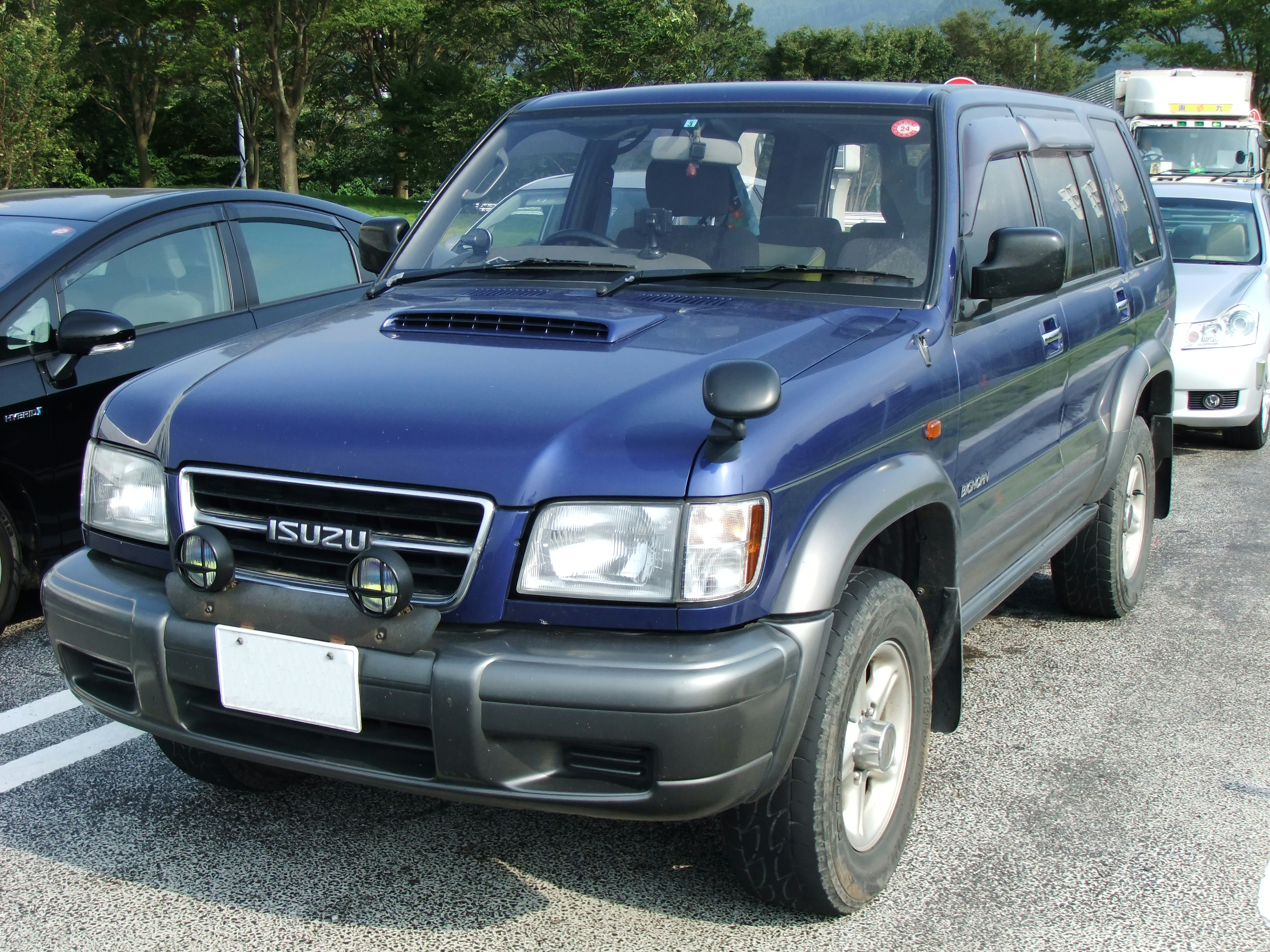 Isuzu Motors Ltd., BIGHORN(Trooper), 2nd Gen. Middle range